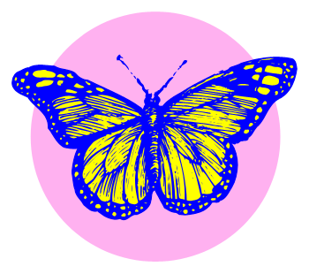 Transgender butterfly symbol (PNG version). Not copyrighted.